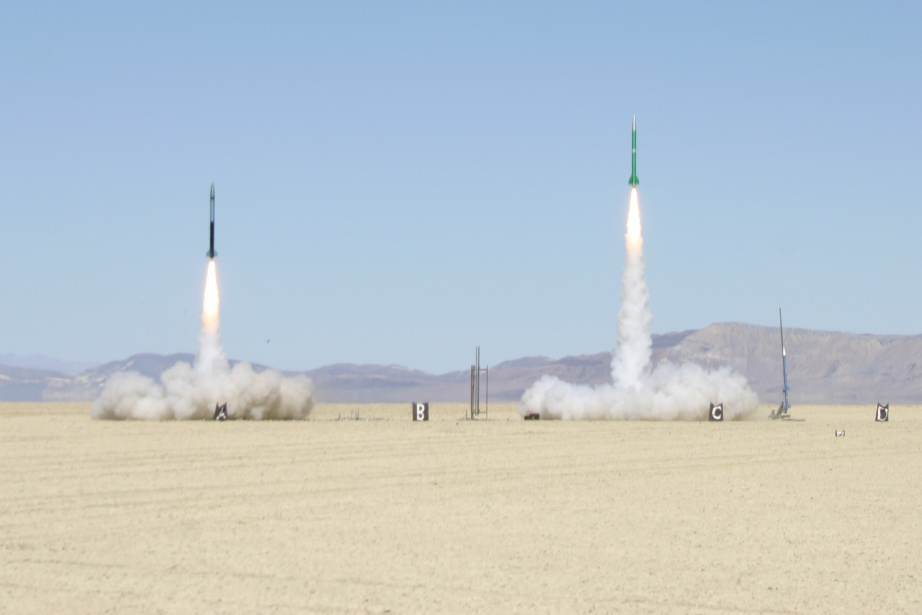 Two rockets launch together at the Black Rock Desert. Both are carrying university research projects from Japan.